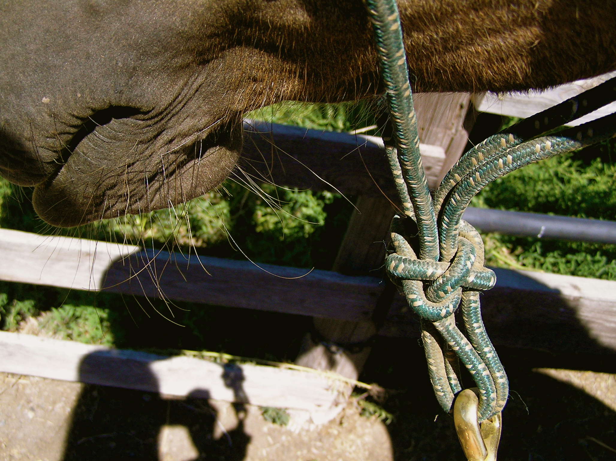 A rope halter bottle sling knot creates a loop for attaching a lead rope